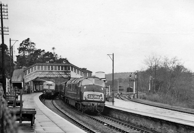 Bodmin Road Station. View SW, towards Penzance, also Bodmin General to right; ex-GWR Plymouth etc. - Penzance main line, junction of branch to Bodmin General. Station renamed 'Bodmin Parkway' 4/11/84. A 'Warship' class Diesel-hydraulic is heading the Up 'Cornish Riviera Express', while a Diesel multiple-unit waits at the Down platform.